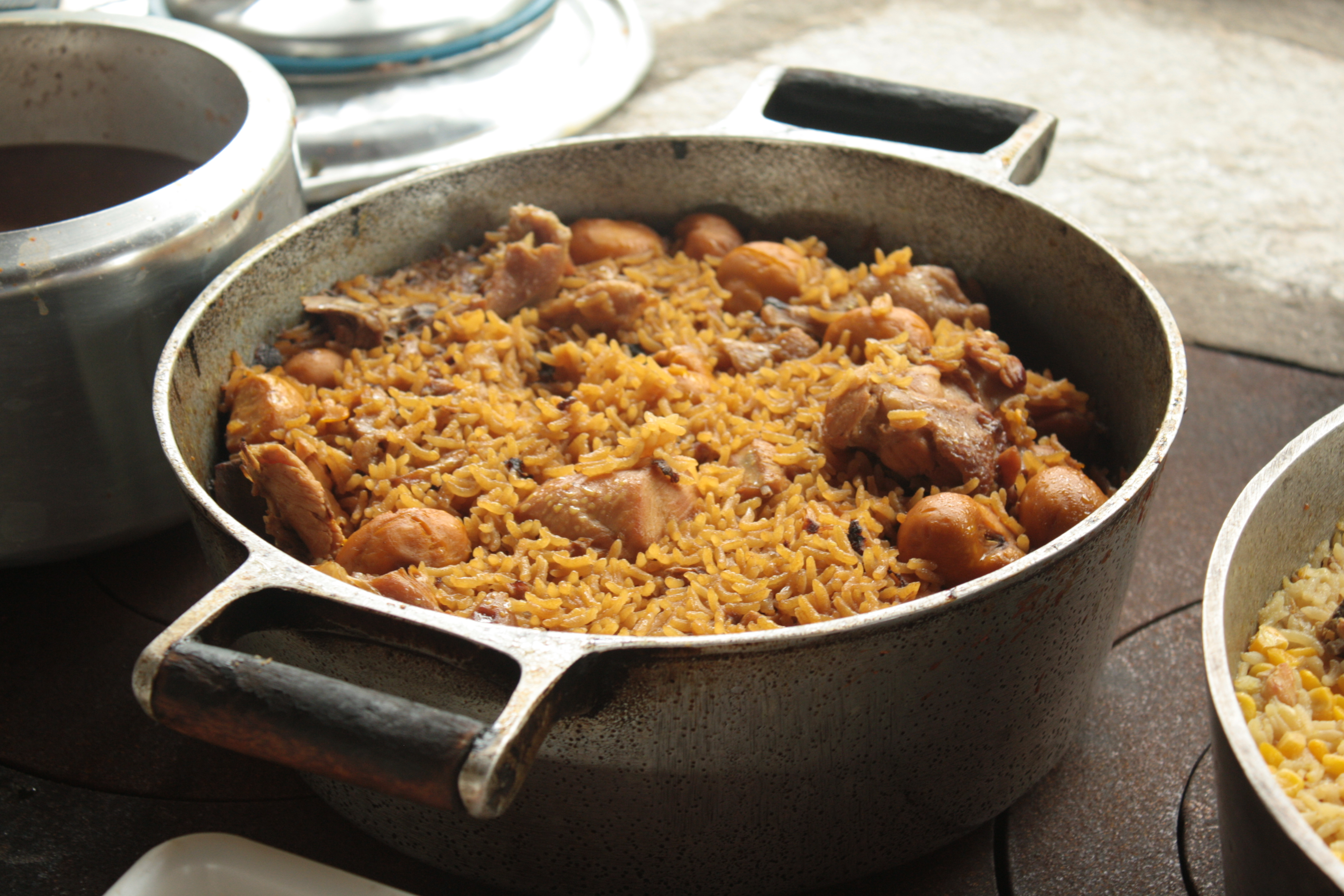 Galinhada (chicken and rice) with pequi (souari nuts)